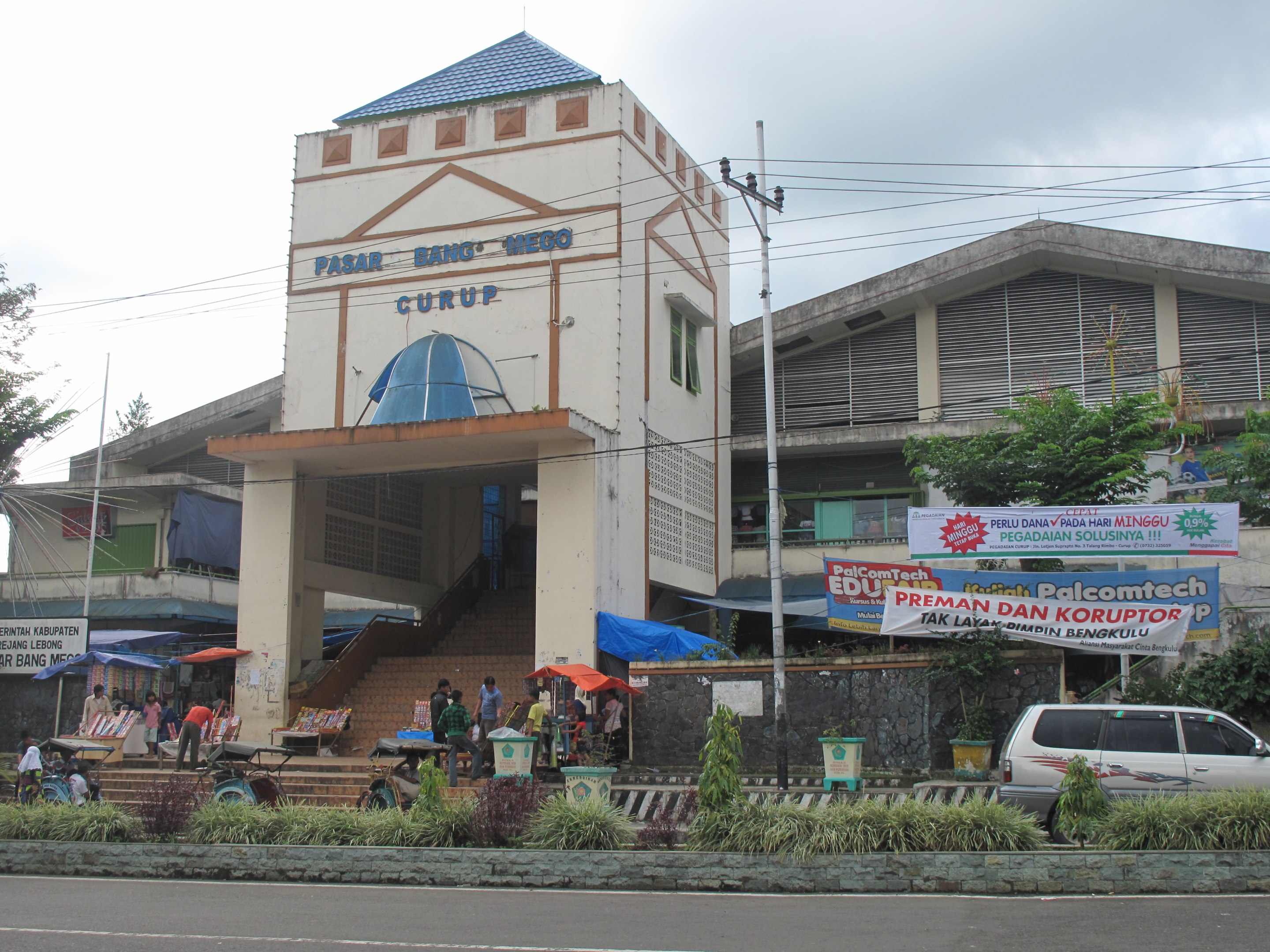 Bang Mego Market, Curup, Rejang Lebong Regency, Bengkulu, Indonesia.